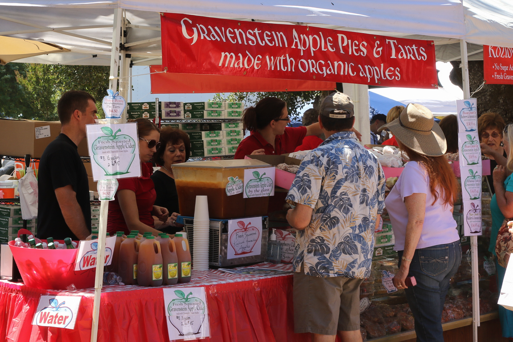 Gravenstein Apple Fair 2016 in Sebastopol, Sonoma County, California